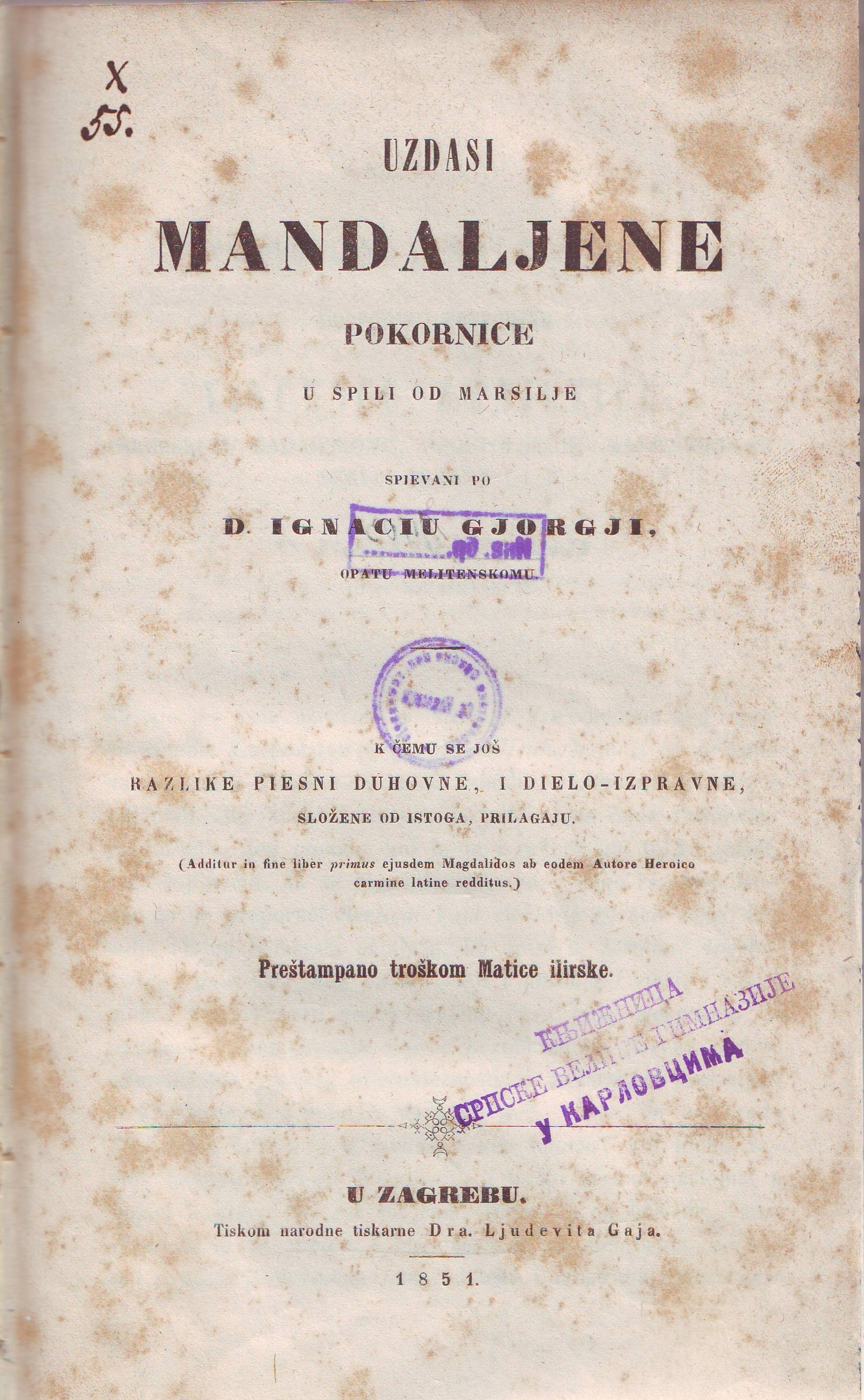 Cover of Uzdasi mandaljene pokornice (1851) by Ignjat Đurđević. Srpski (latinica): Naslovna strana knjige Uzdasi mandaljene pokornice (1851) Ignjata Đurđevića.